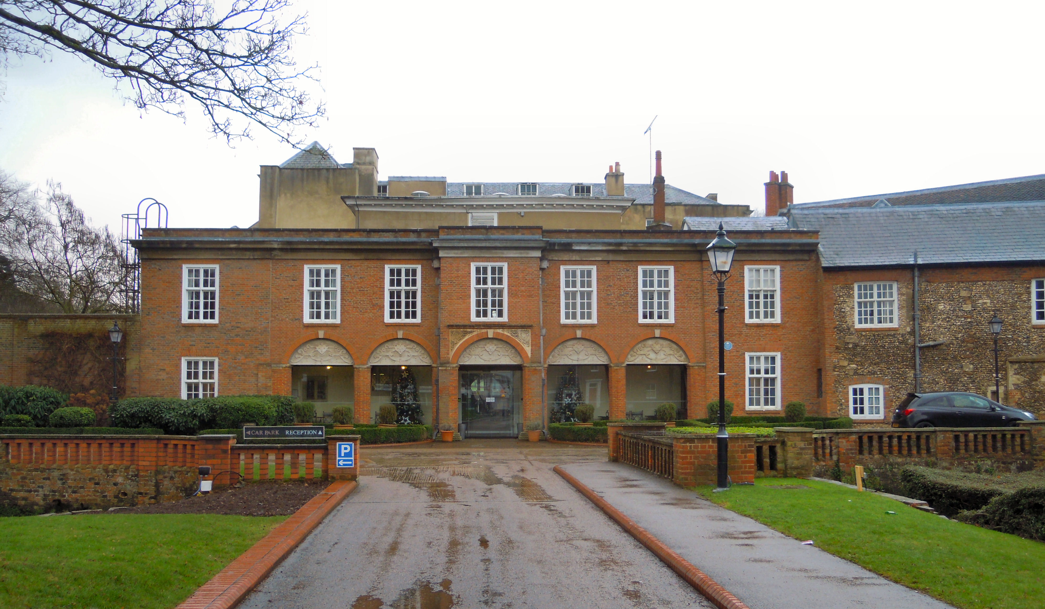 The front entrance to Hitchin Priory, a former Carmelite monastery and now a hotel - taken in 2014